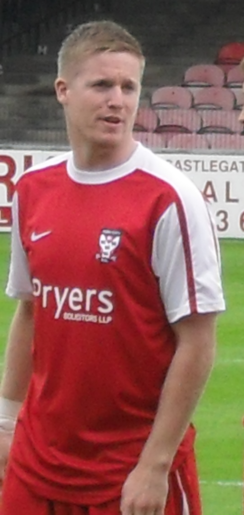 Michael Gash playing for York City against Hartlepool United at Bootham Crescent, York on 31 July 2010